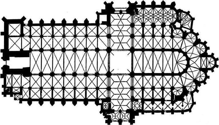 Sint-Janskathedraal, 's-Hertogenbosch, plan.